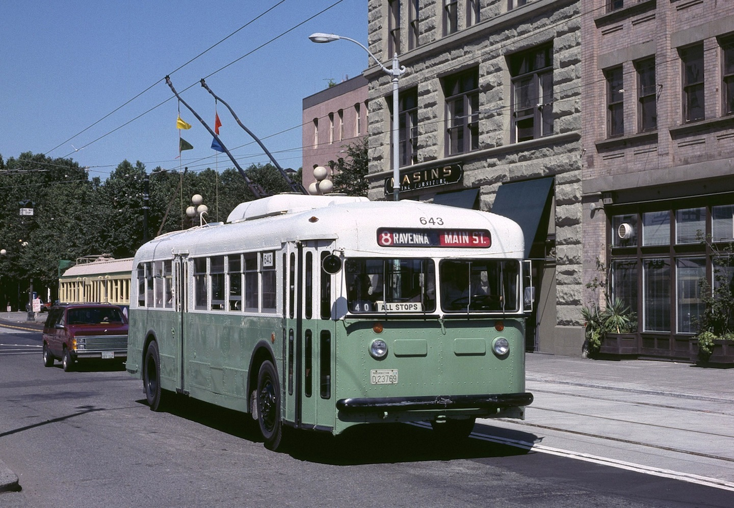 Seattle trolleybus 643 was built in 1940 by Twin Coach. Originally numbered 905, it was renumbered 643 in 1963 but was retired and donated to a museum in 1965. However, it was re-acquired and returned to service in 1976, renumbered 622. Retired again in January 1978, it was renumbered back to 643 in 1982 when initial restoration work took place. In the late 1980s, it was fully restored to operating condition by volunteers from the Metro Employees Historic Vehicle Association (composed mostly of employees of the Metro Transit, now King County Metro). It began making occasional public excursions on the Seattle trolleybus system in April 1990. This photo was taken during one such excursion, and in this photo No. 643 is eastbound on South Main Street between 2nd and 3rd avenues in downtown Seattle. It has just passed a westbound streetcar on the Waterfront Streetcar line (which had been newly extended to this location during the previous month). In July 2018, it was renumbered back to its original fleet number, 905. It wears the paint scheme that was the Seattle Transit System's standard livery from 1955–1968.